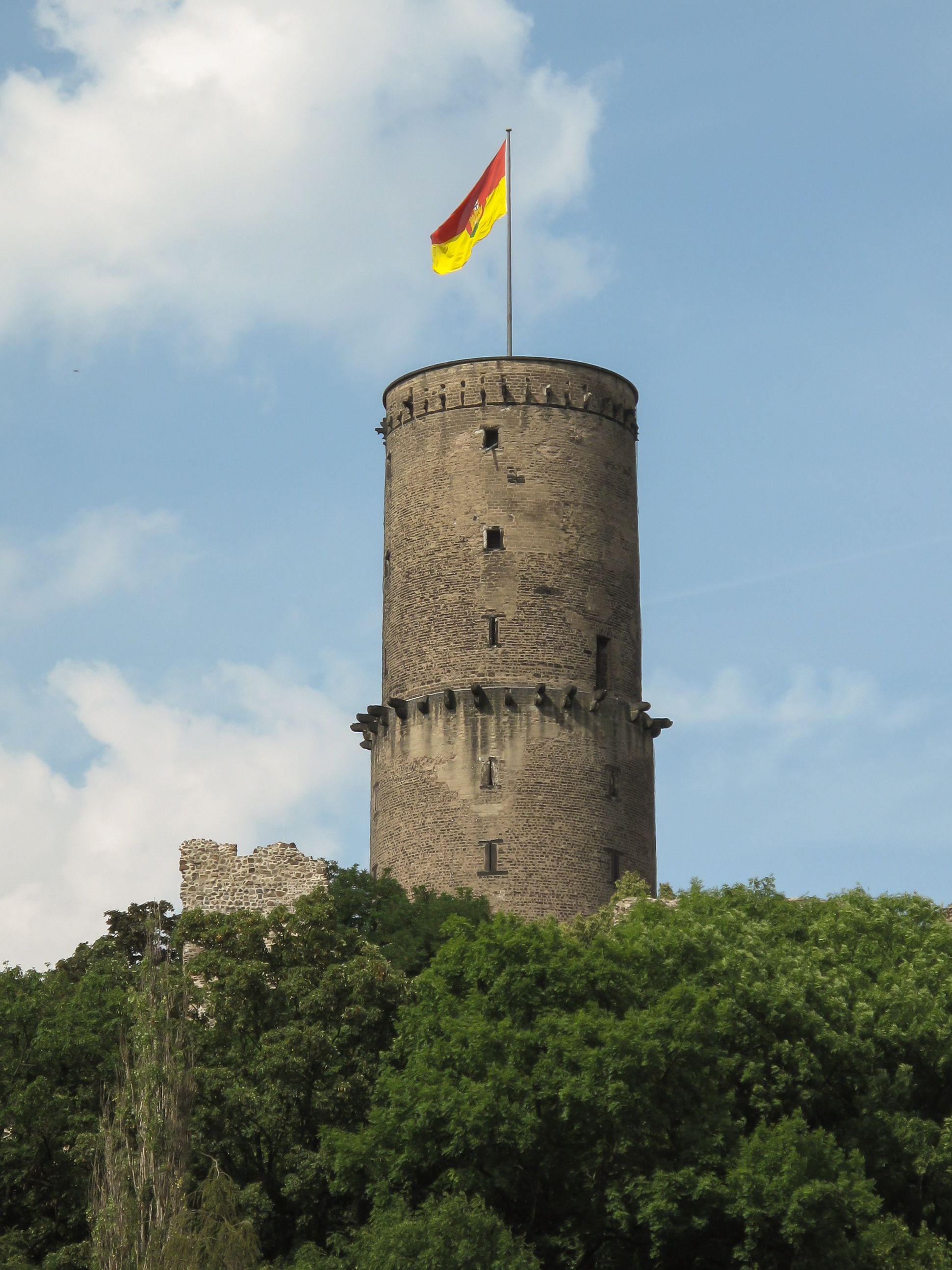 Bad Godesberg, ruins